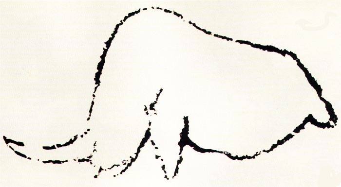 Cave art from Rouffignac, France, thought to depict the extinct one-horned rhinoceros Elasmotherium.